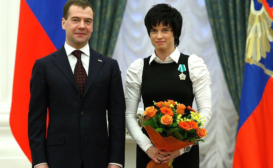 Svetlana Sleptsova in Kremlin